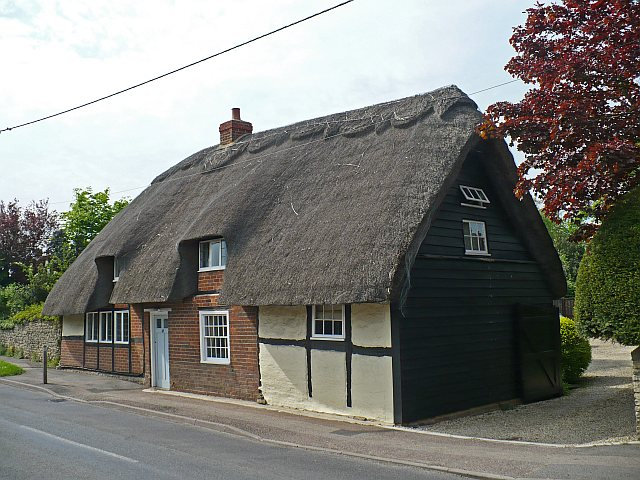 Thatched Cottage at 69 High Street, Drayton, Vale of White Horse